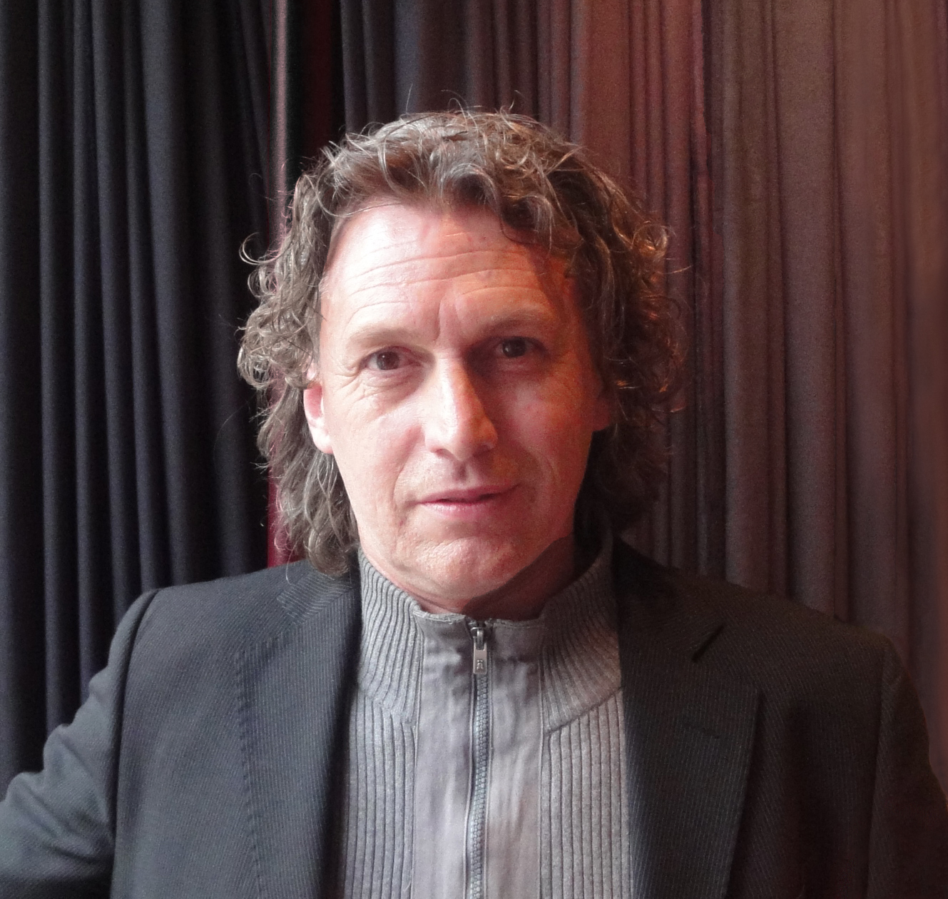 Edwin Winkels after a recording of an episode of "De Wereld Draait Door" This is a retouched picture, which means that it has been digitally altered from its original version. Modifications: Background simplified, cropped. The original can be viewed here: Edwin Winkels2.JPG. Modifications made by 1Veertje.